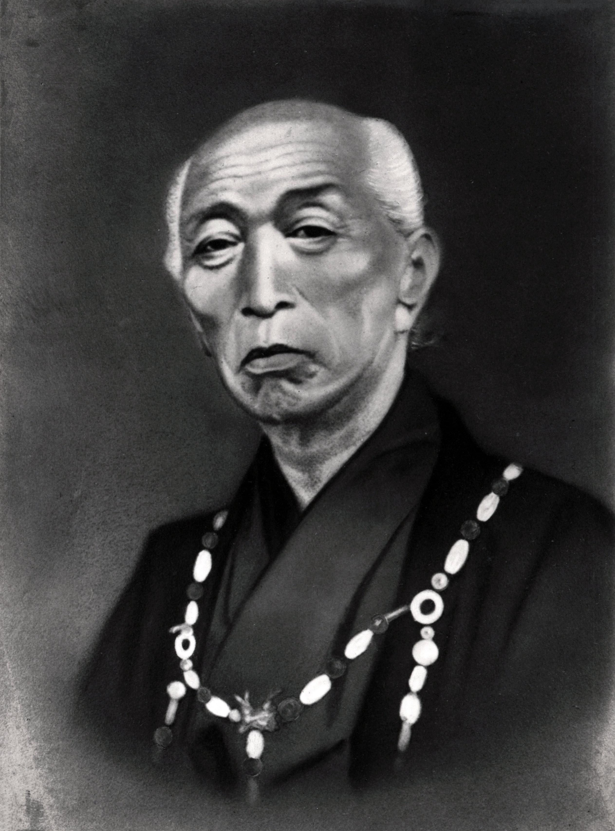 A explorer from Japan,松浦武四郎（Takeshiro Matsuura）